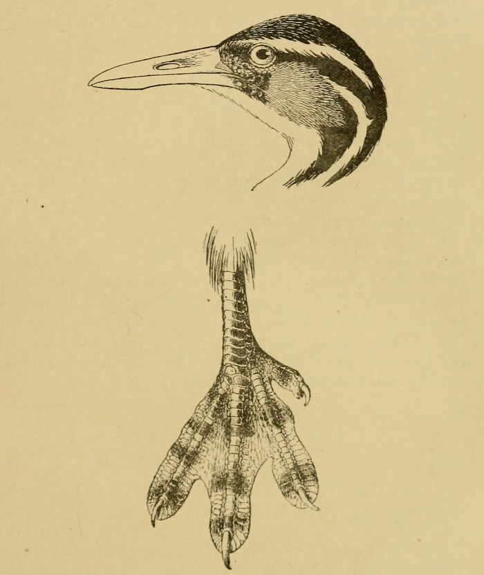 Details of the head and foot of the Sungrebe, Heliornis fulica.